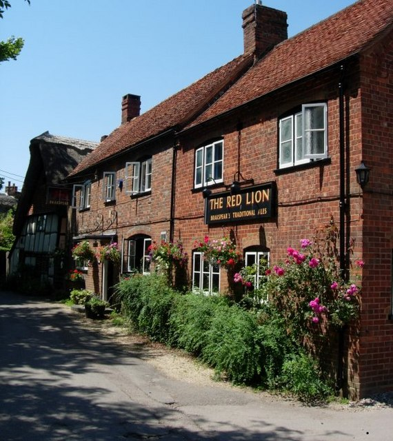 The Red Lion public house, Chapel Lane, Blewbury, Oxfordshire (formerly Berkshire)